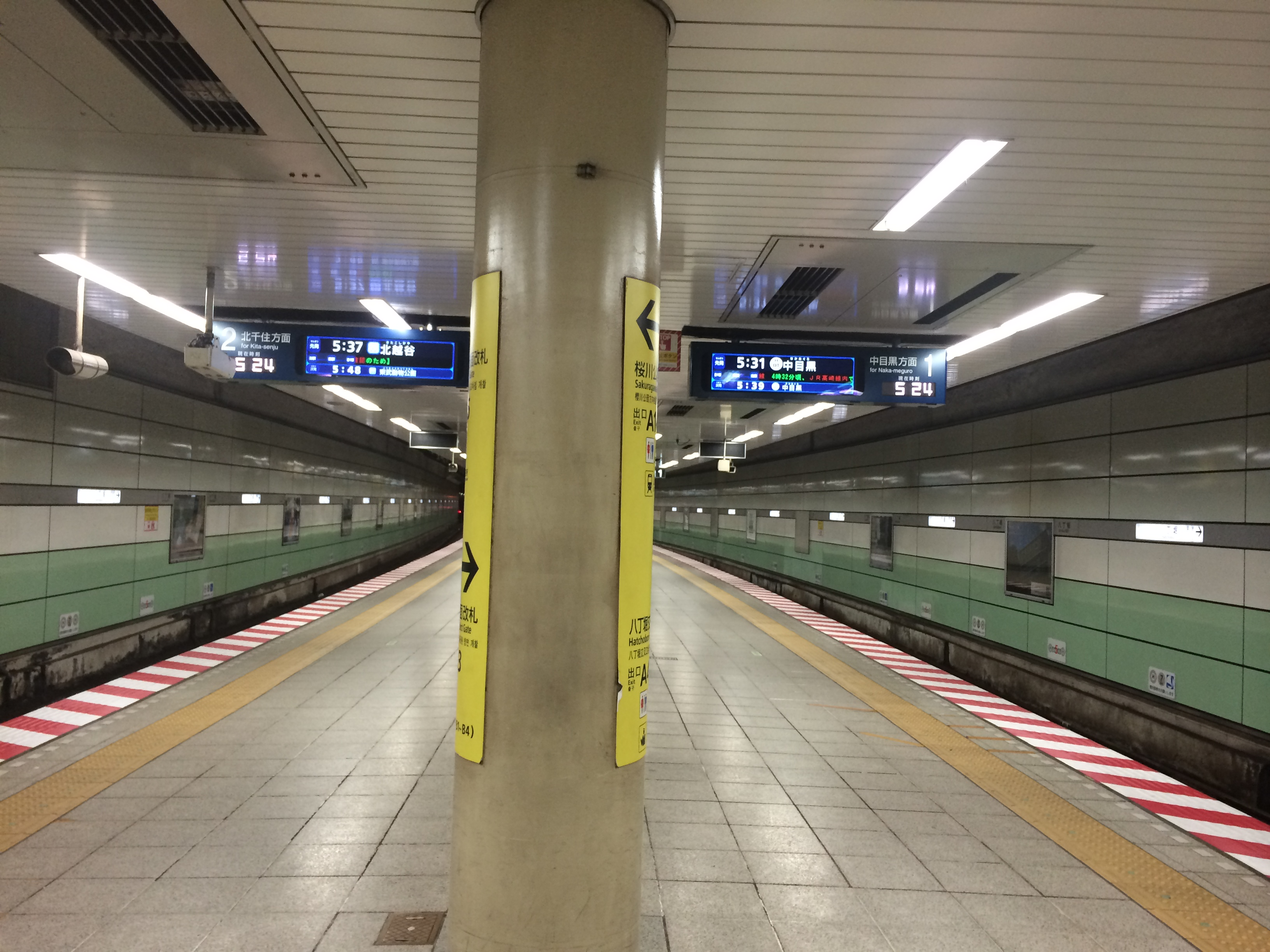 The platform at Hatchobori Station in Tokyo, Japan